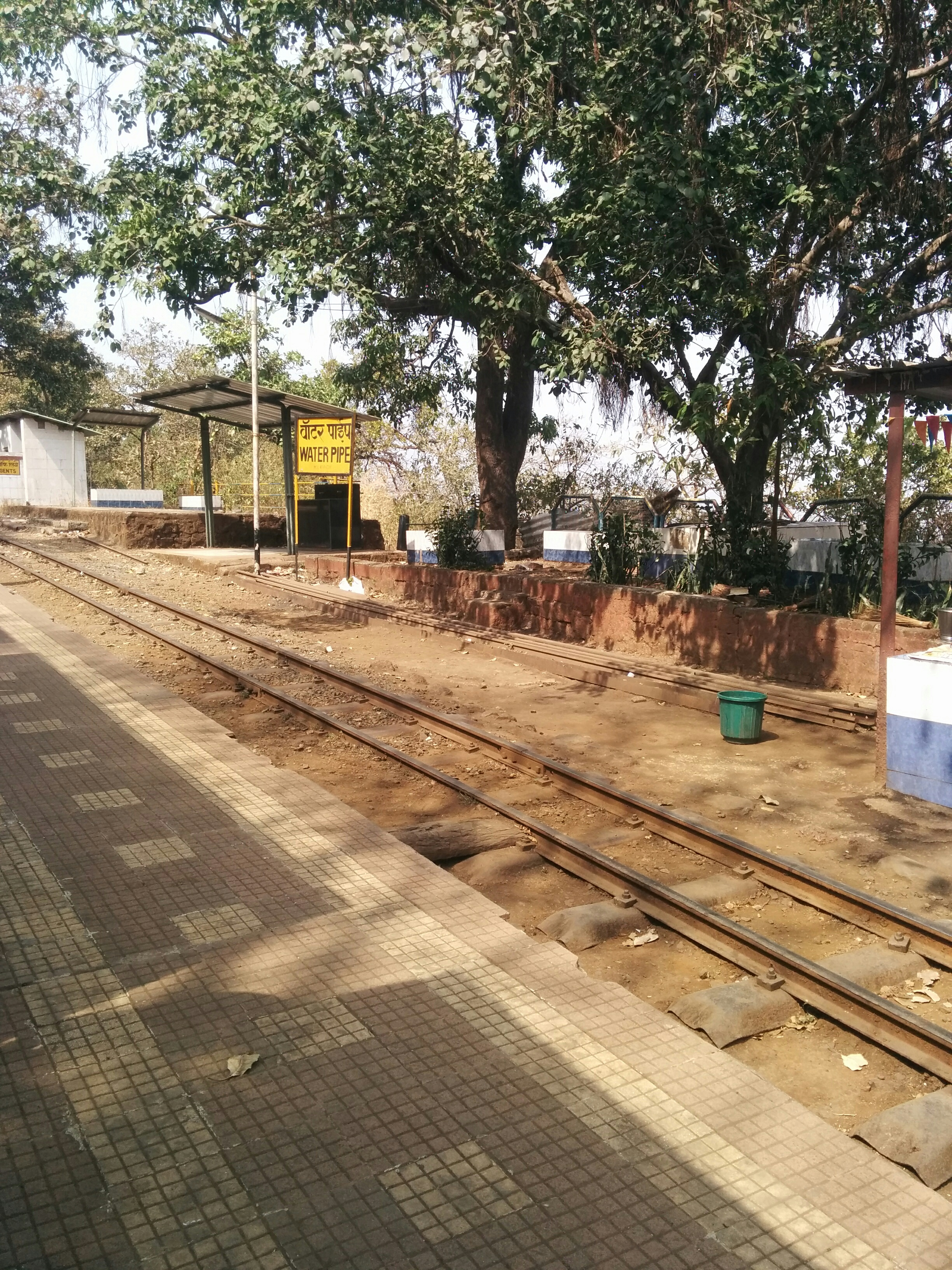 Water Pipe Railway Station on the Neral Matheran Railway line.